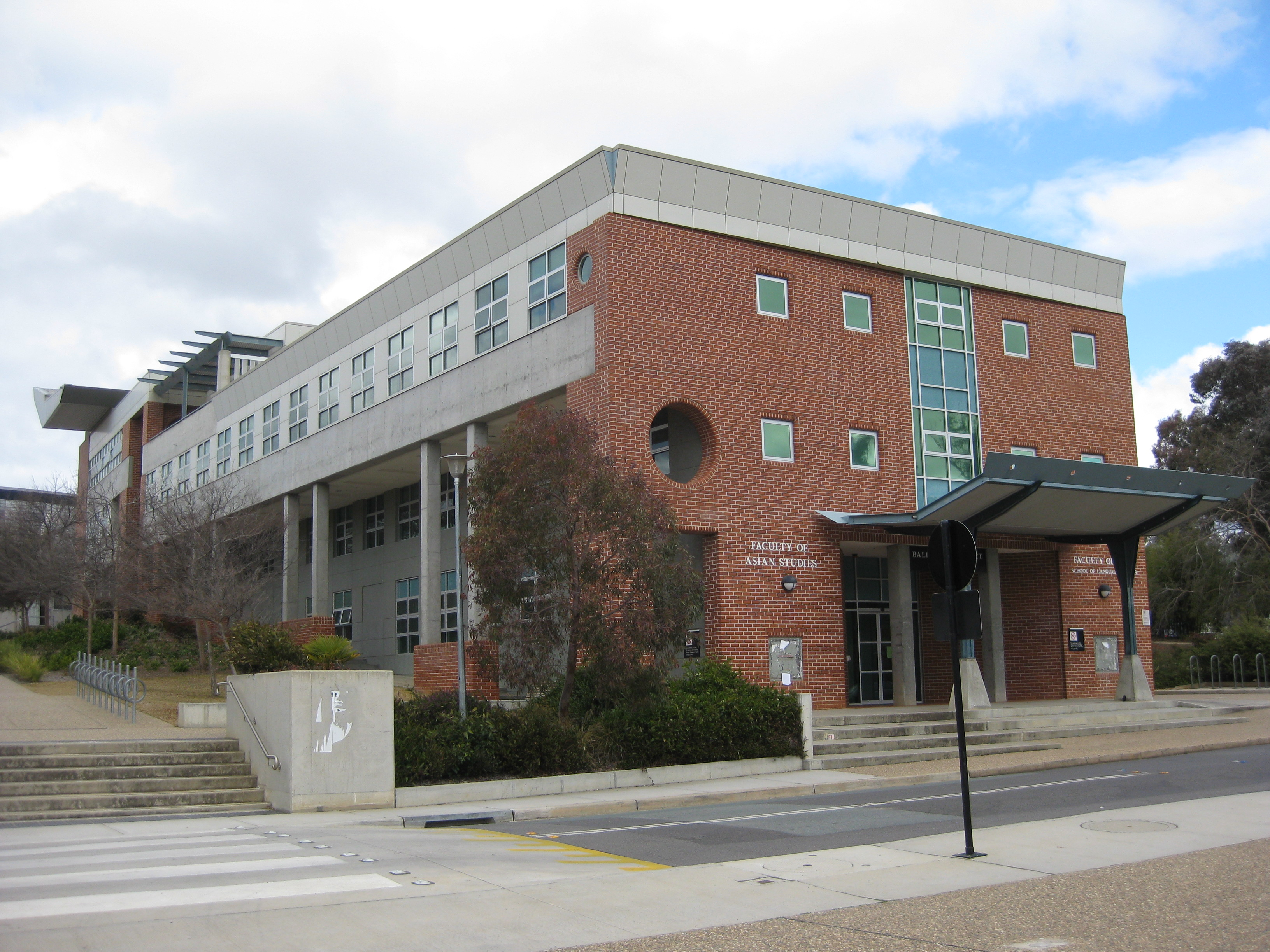 The Baldessin Precinct Building at the Australian National University. This building houses the ANU's Faculty of Asian Studies.